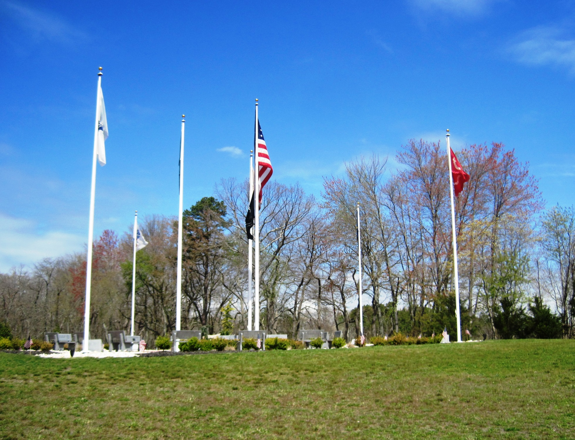 Photograph showing the site of the Jackson Township Veterans Memorial Garden in Jackson Mills, New Jersey, an unincorporated community within Jackson Township. Photo taken along westbound Commodore Highway (County Route 526) past Jackson Mills Road (CR 638).